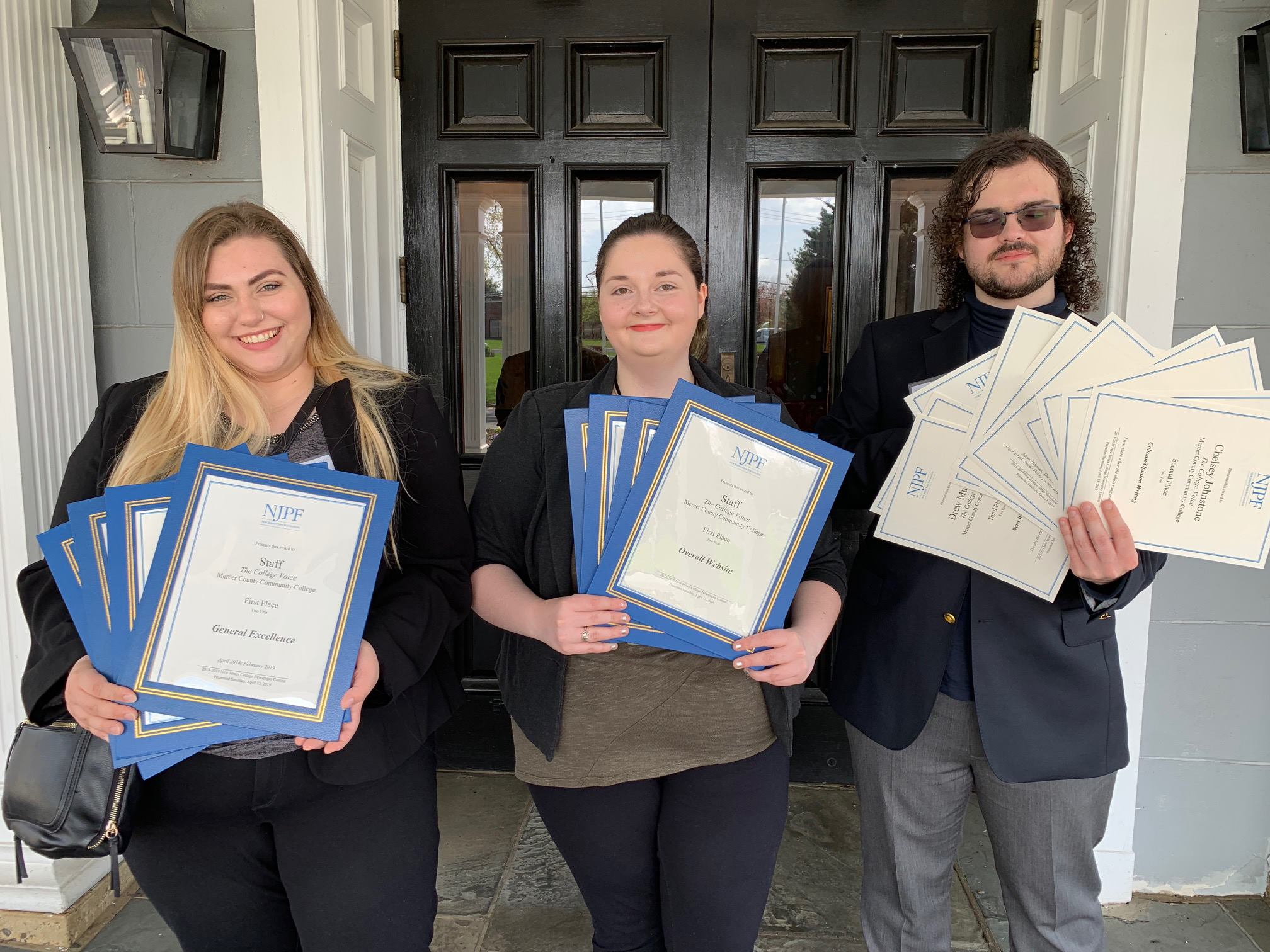 Three students from Mercer County Community College in West Windsor, NJ holding the 18 awards from the New Jersey Press Foundation for The College VOICE student newspaper, of which they were members. Forsgate Country Club, Monroe, NJ.